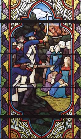 Stained glass window of the Saint-Martin church in La-Salle-de-Vihiers, presenting the massacre of Carrefour-des-chats in 1794, when the French republican army shot over thirty villagers, including women and children.